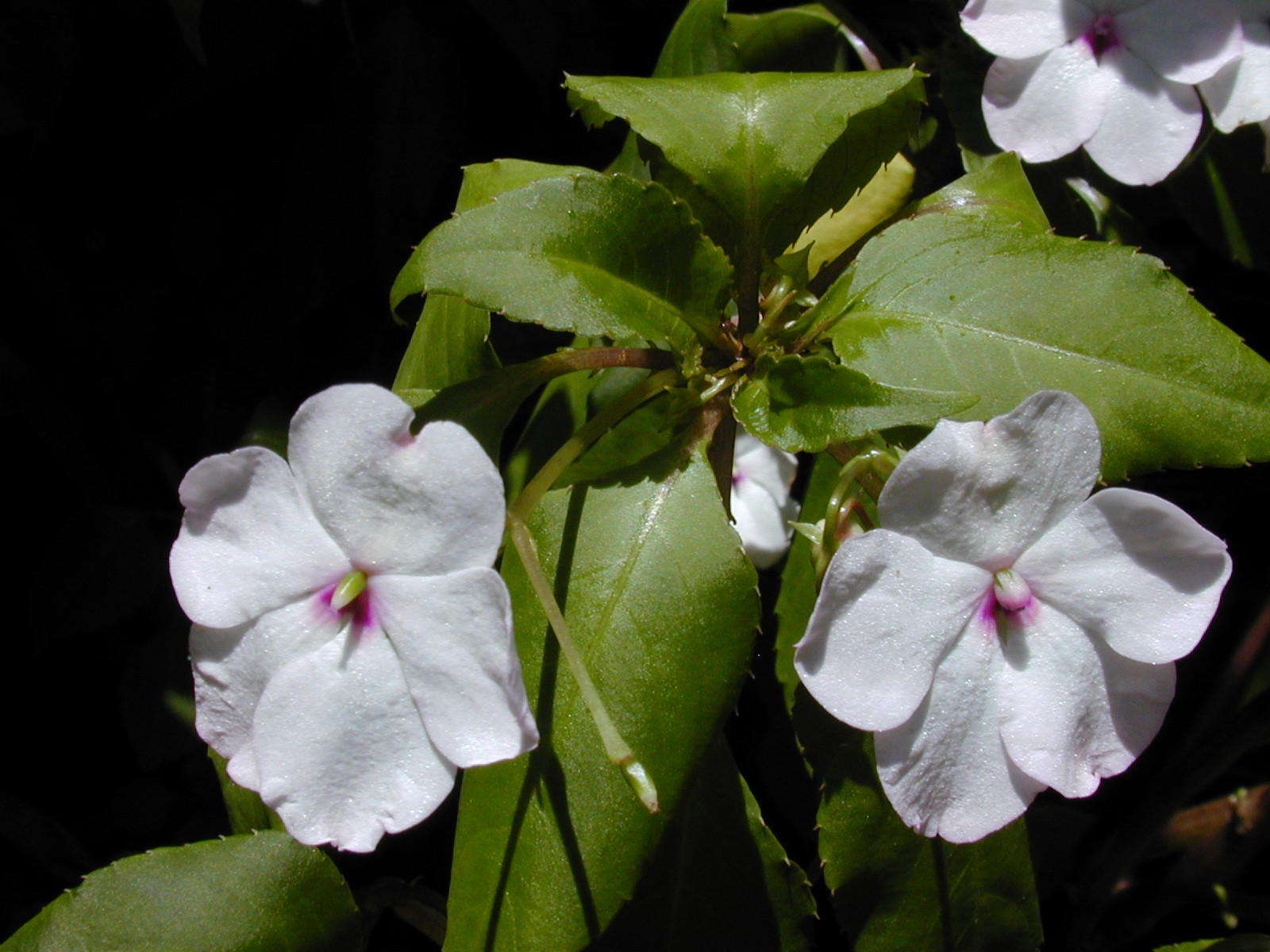 Impatiens walleriana (flowers). Location: Maui, Makawao